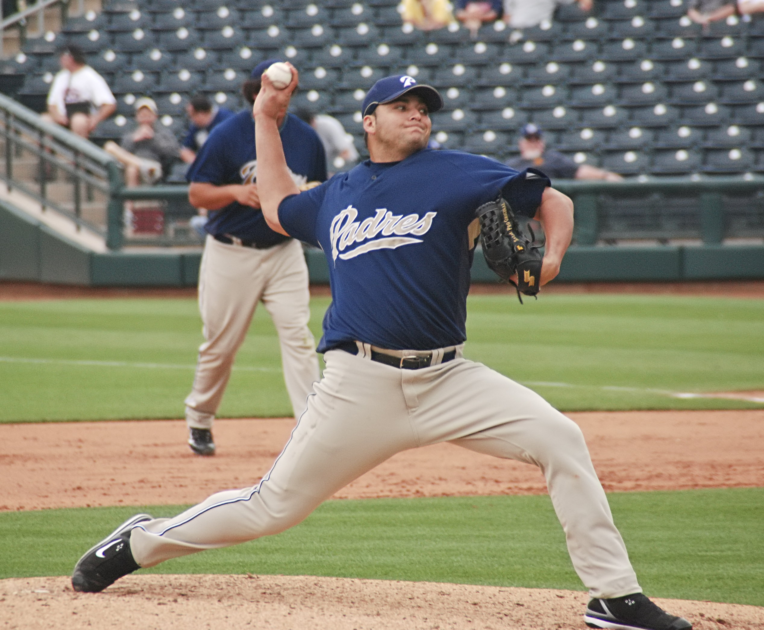 Edwin Moreno pitcher for the San Diego Padres spring training 2009